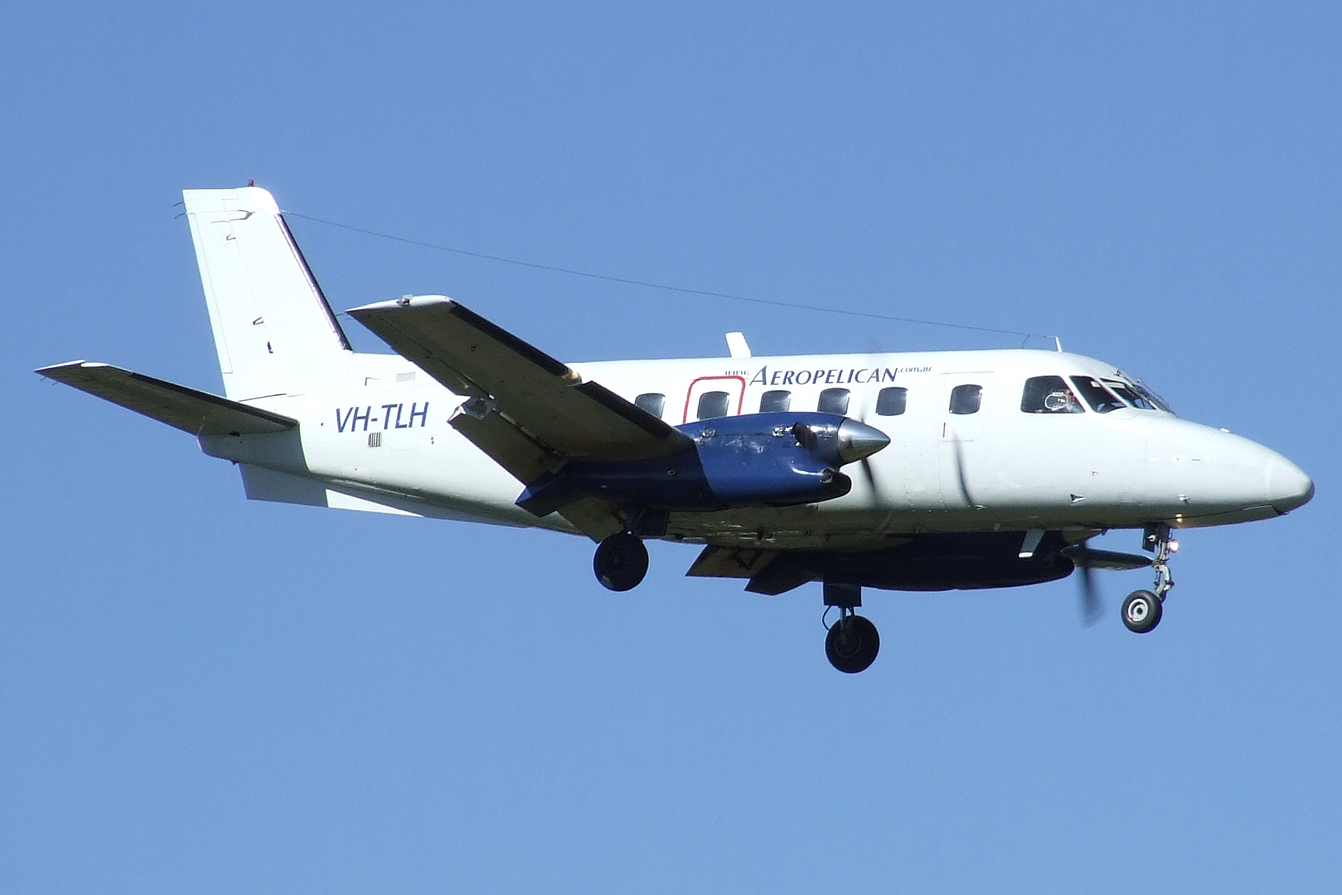 Aeropelican's Embraer EMB 110P1 Bandierante on final approach to land at Sydney Airport in Australia. Digital photo of VH-TLH.